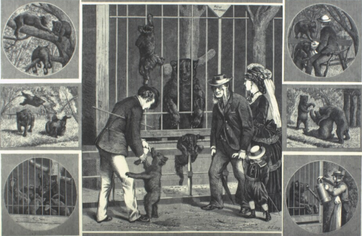 Copenhagen Zoo in Frederiksberg, Copenhagen, Denmark